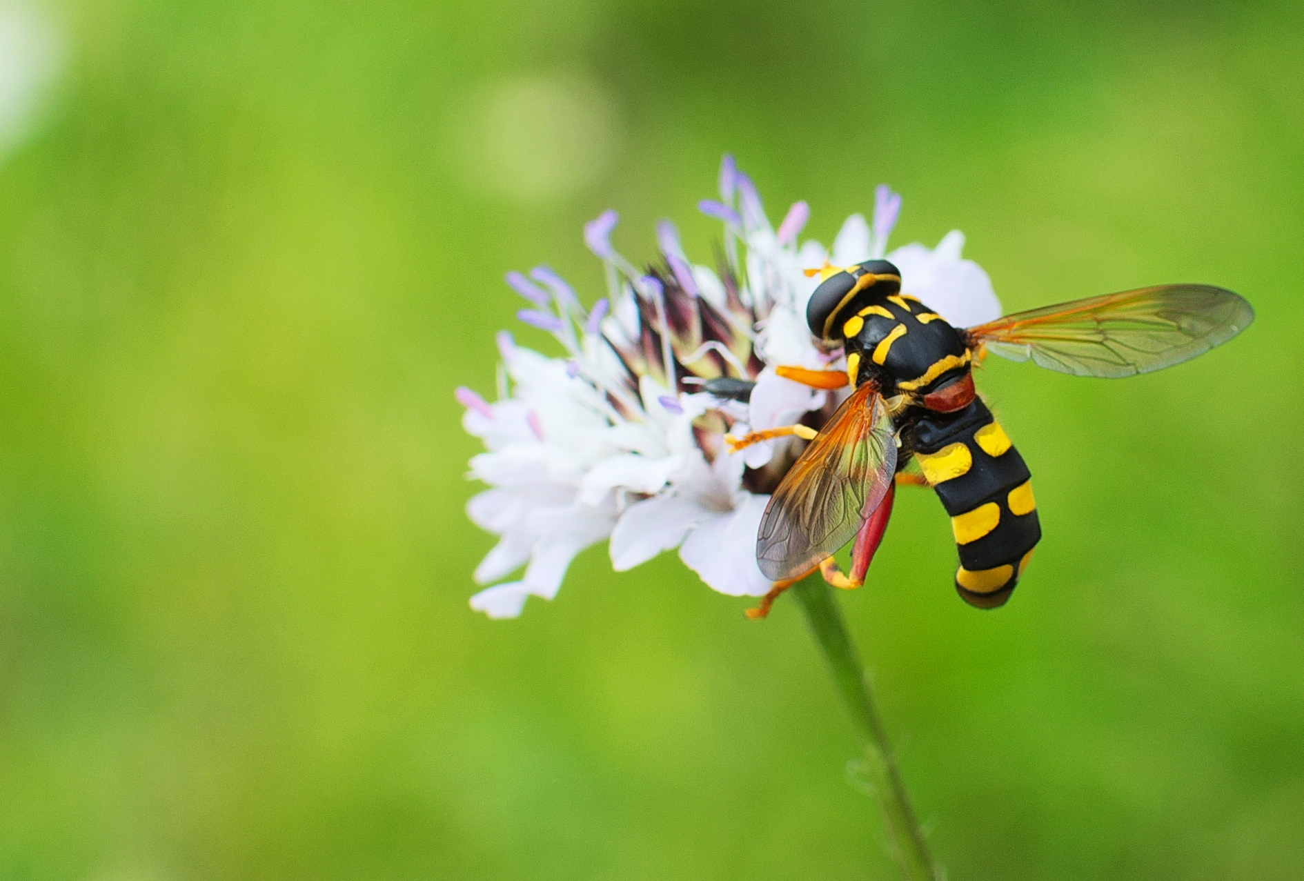 A photo of hoverfly Milesia semiluctifera common in Mediterranean Europe. Photo taken in Bulgaria